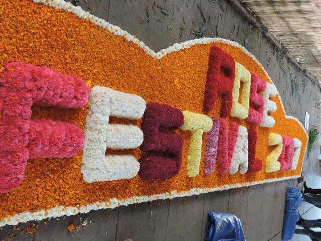 Rose festival - 2017 Chandigarh ,India